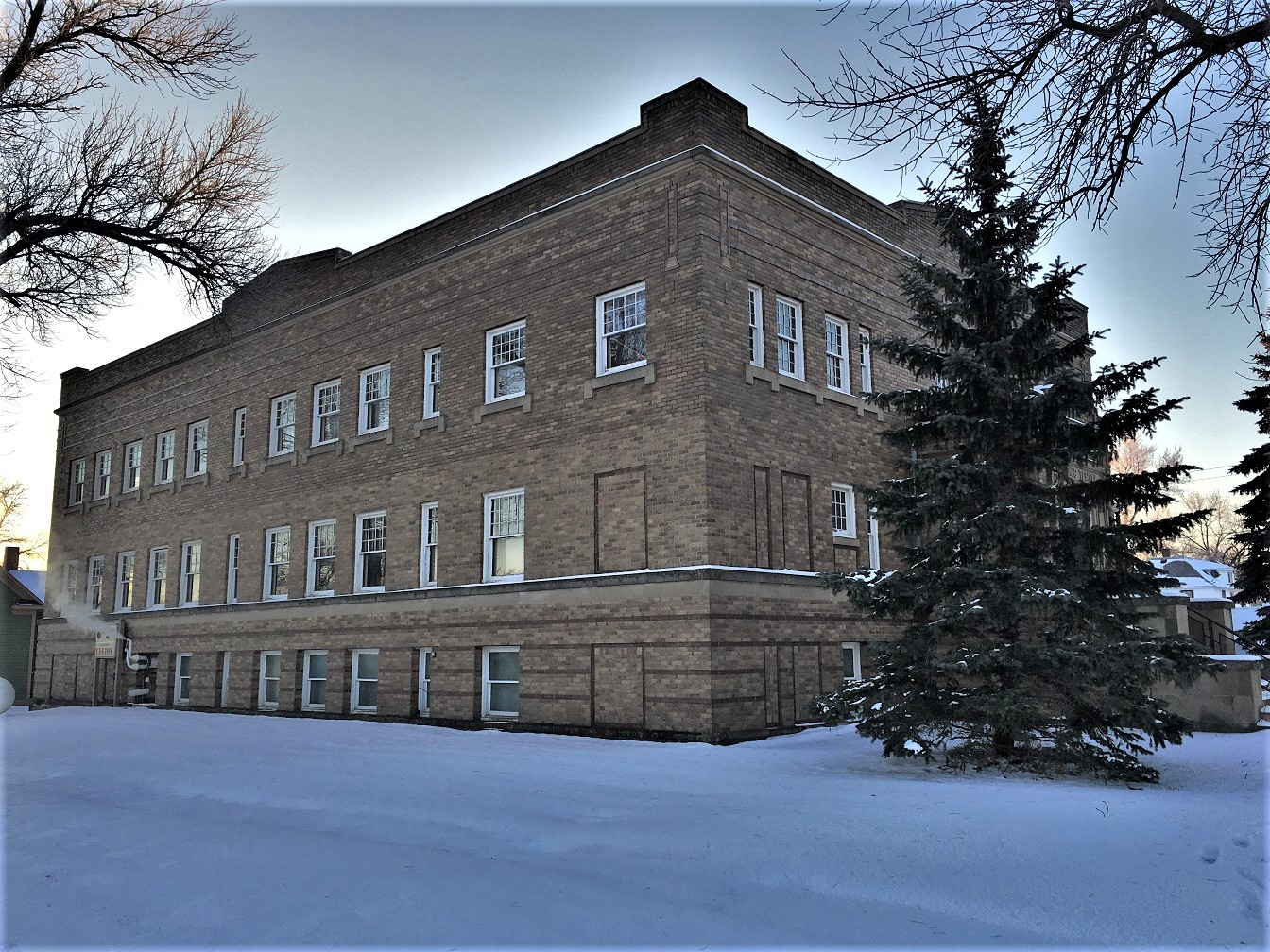 Northern Lights Masonic Lodge